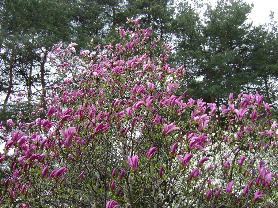 Poland. Warsaw. Powsin. Botanical Garden. Magnolias. Magnolia Susan